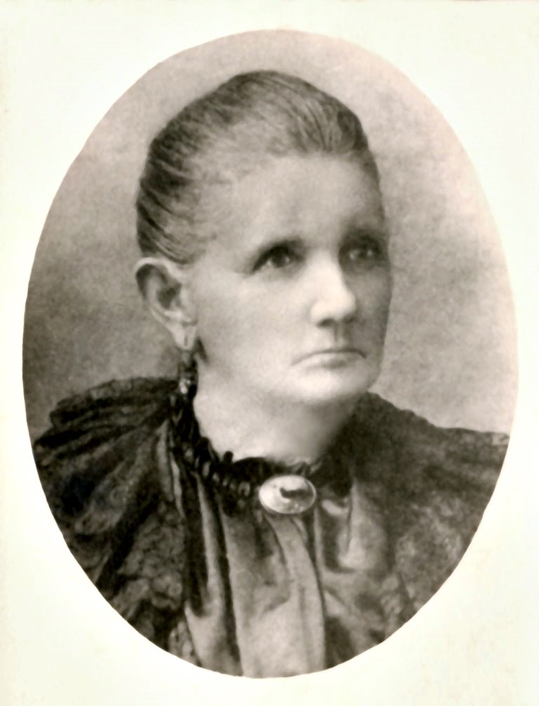 Fideralina